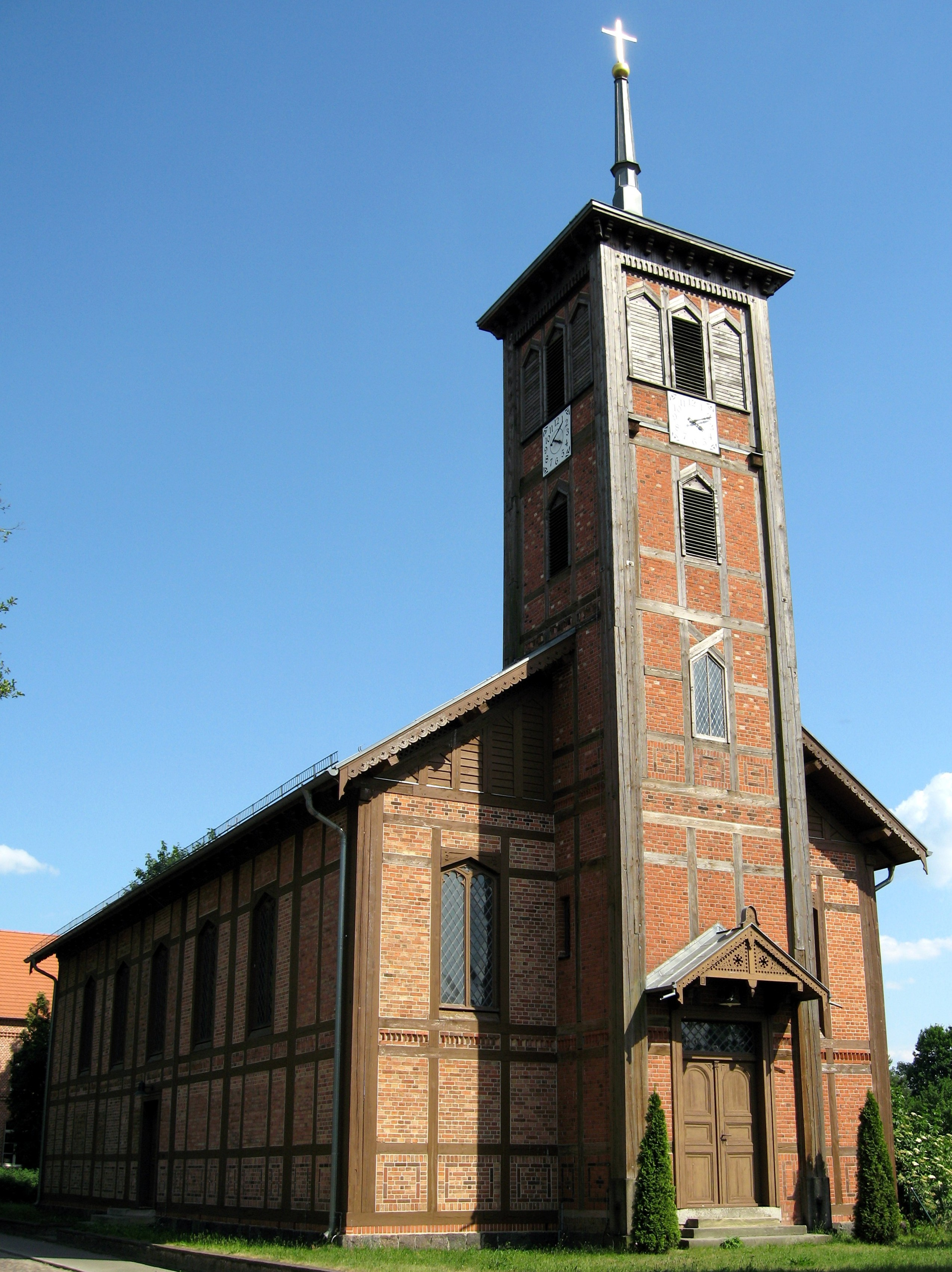 Church of Zerpenschleuse, Wandlitz municipality, Barnim district, Brandenburg state, Germany